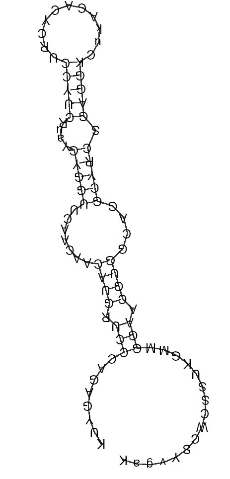 RNA secondary structure of TB10Cs1H3 generated by the WAR server( It is the consensus structure from 8 Trypansomatid species -Leishmania major, Leishmania infantum, Leishmania braziliensis, Trypanosoma brucei, Trypanosoma brucei gambiense, Trypanosoma cruzi, Trypanosoma congolense, Trypansoma vivax --with some manual editing and redrawing of the structure with RNAplot from the Vienna RNA package